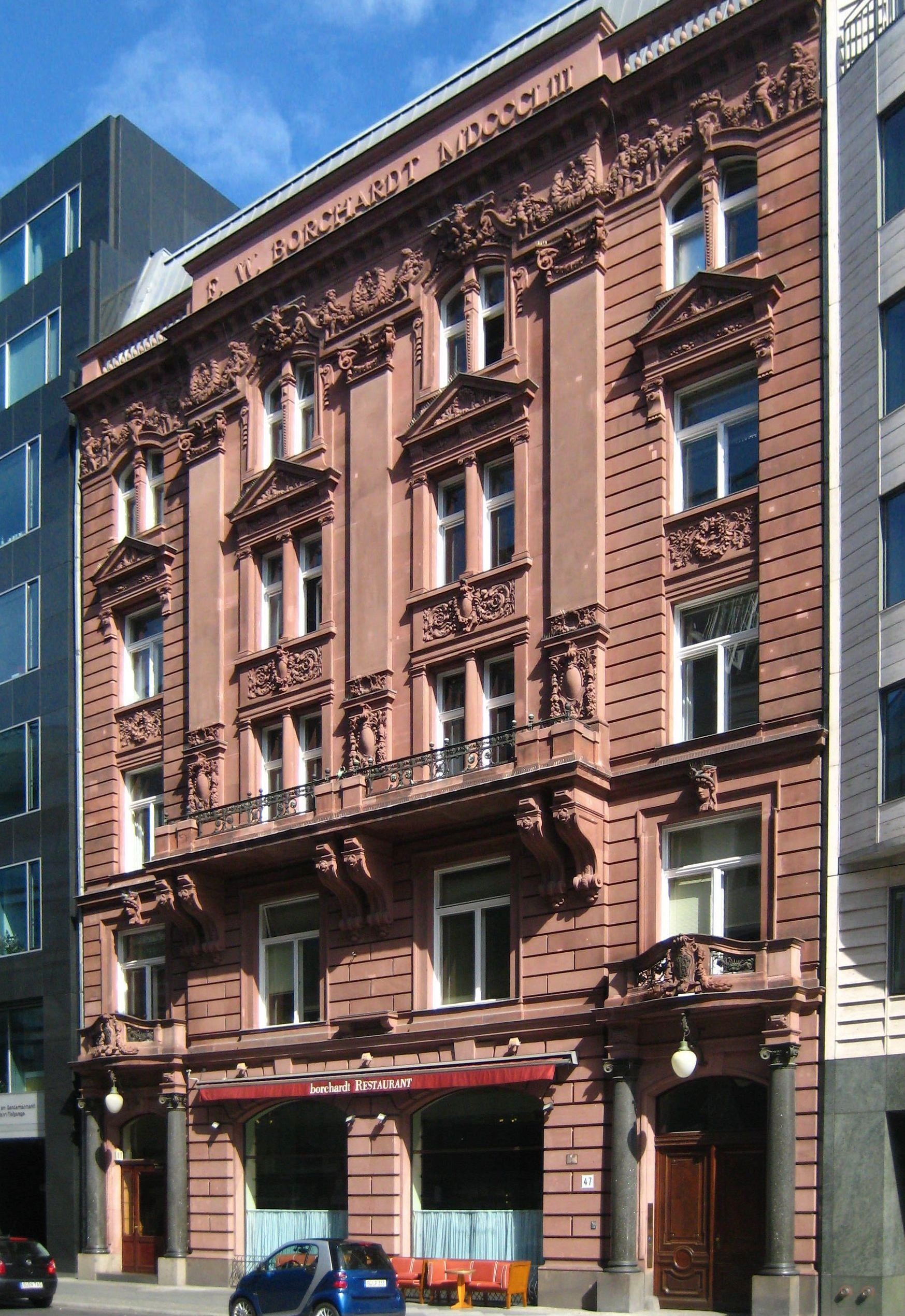 Building of the former "Wine Store Borchardt" at Französische Straße No. 47 in Berlin-Mitte, built 1899 to 1900 by Carl Gause as annex to a neighboring building (not preserved). The representative facade of red sandstone shows elements of Neo-Renaissance and Neo-Baroque architecture. The long balcony supported by large double consoles is especially noticable. The building has been designated as a historic landmark.